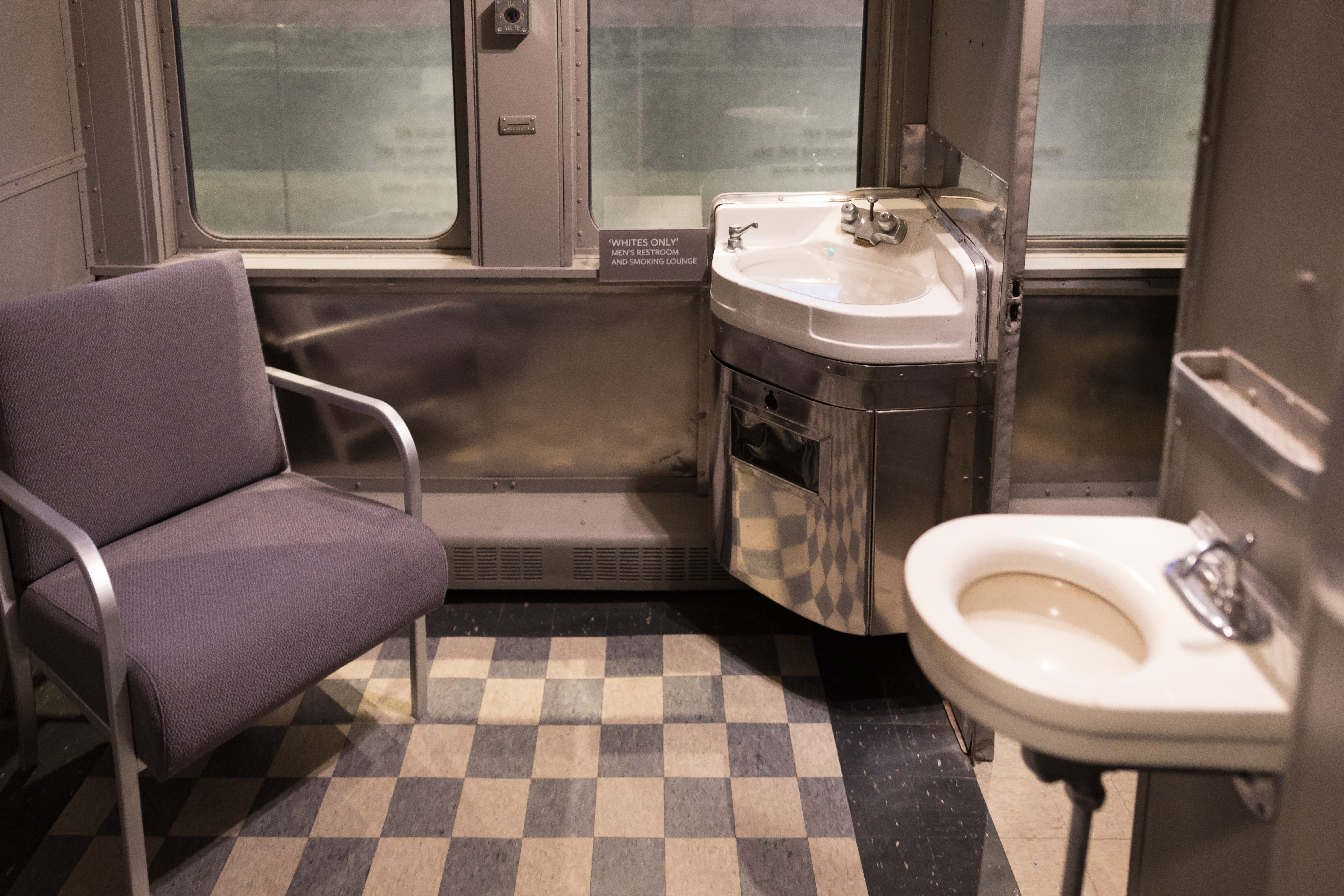 ‘Whites Only’ – Men’s restroom and smoking lounge in Southern Railway Company Coach No. 1200, 1923, redesigned as a segregated car in 1940, on display at the National Museum of African American History and Culture in February 2020